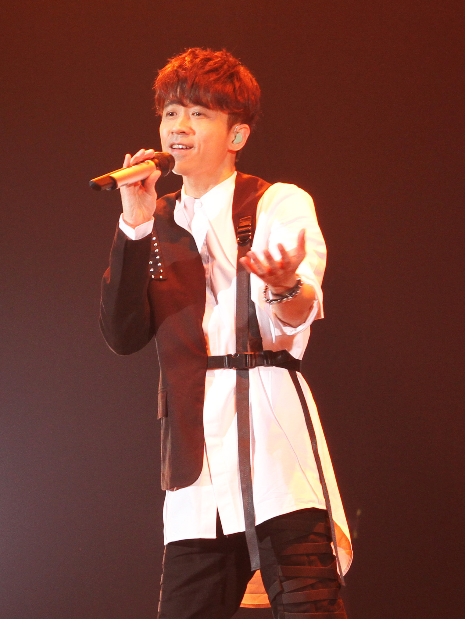 Michael Wong 0318 Japan Show 2